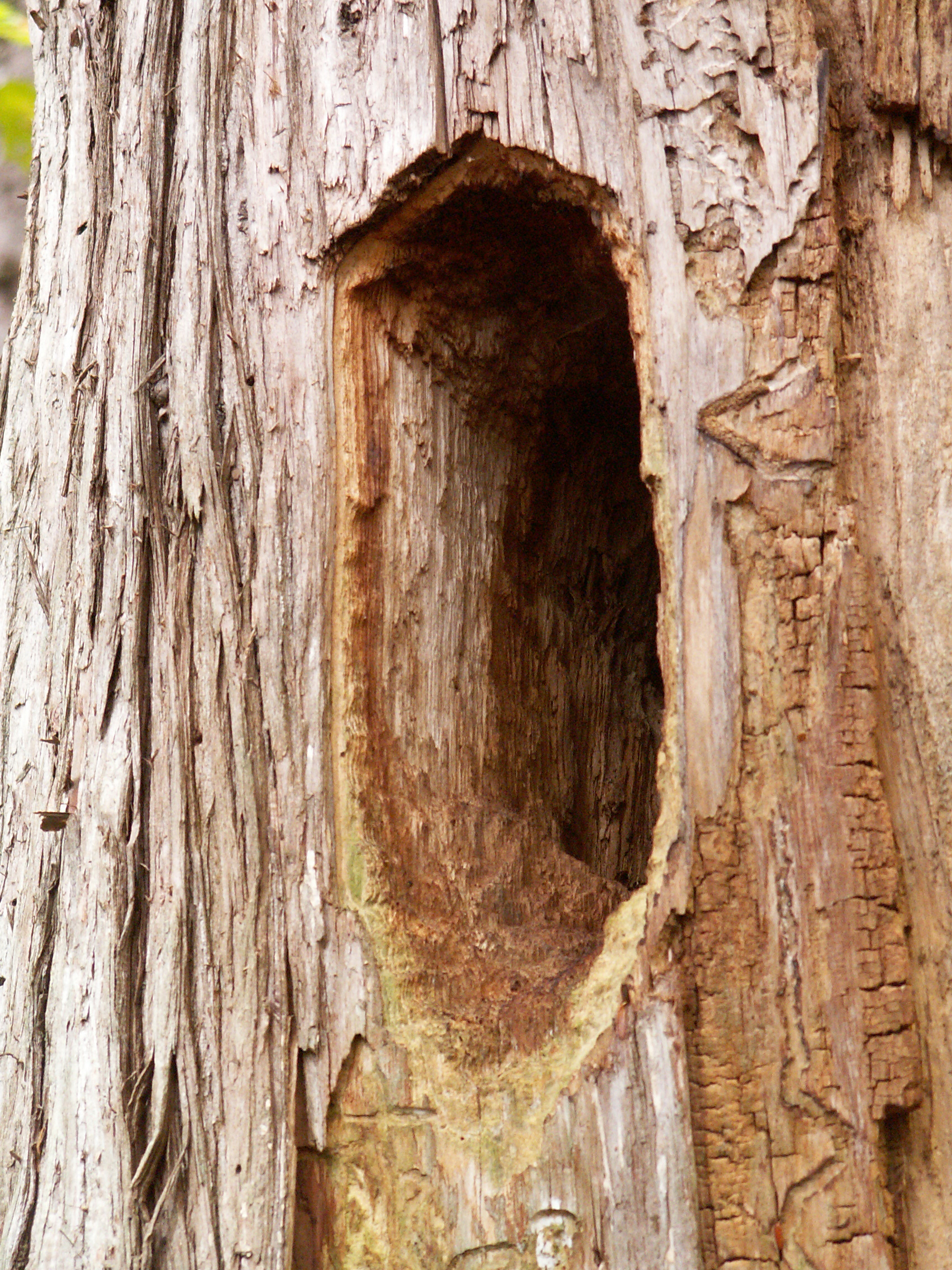 Pileated Woodepecker hole in a Northern Whitecedar (Thuja occidentalis), Cap Tourmente National Wildlife Area, Quebec, Canada.